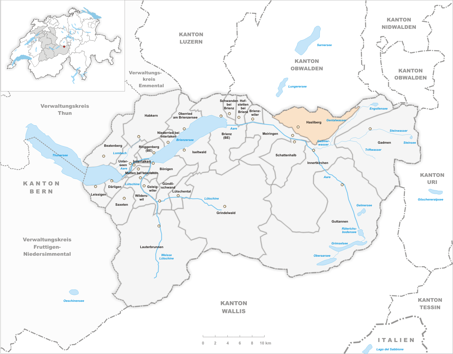 Municipality Hasliberg